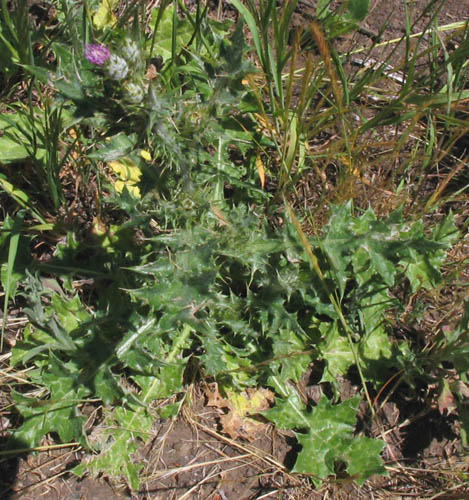 Carduus pycnocephalus. Santa Monica Mountains National Recreation Area, California, USA. Taken at Circle X Ranch: Grotto Trail. NPS photo, no copyright.